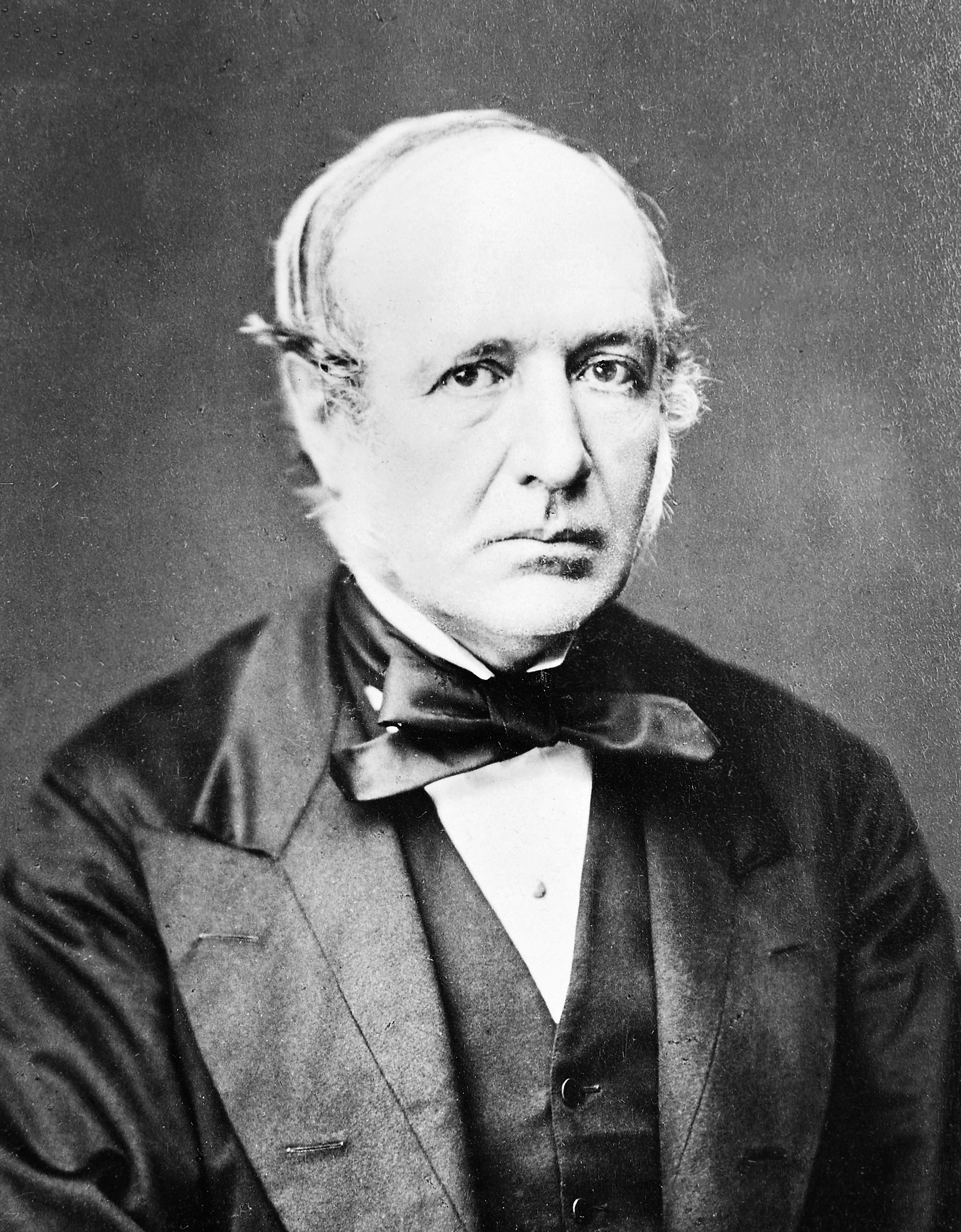 Edward Cator Seaton, copy of original Cabinet portrait by Dr. H. Heid, Vienna.